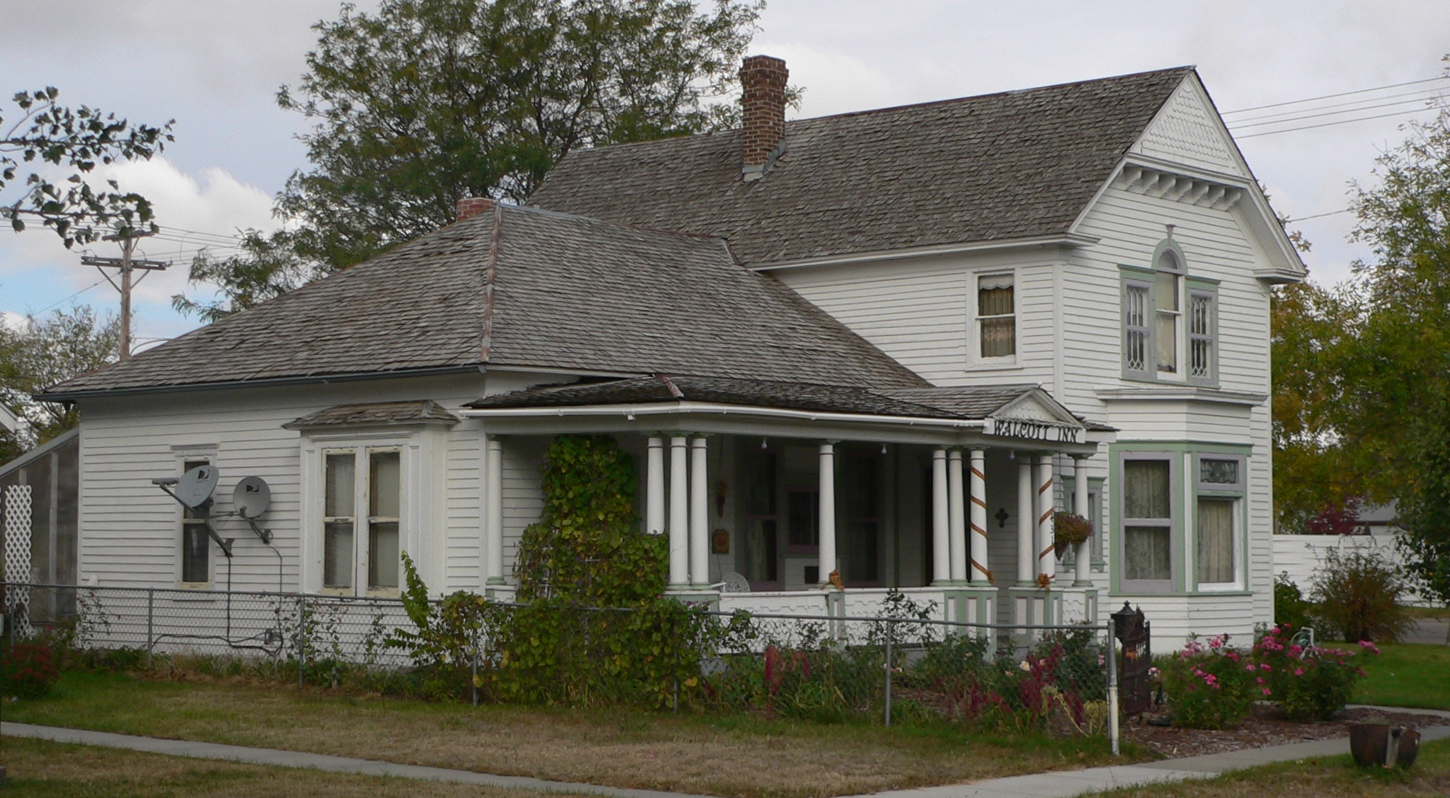 F.M. Walcott House in Valentine, Nebraska; seen from the southeast. The Classical Revival building was constructed in 1892. It is listed in the National Register of Historic Places.